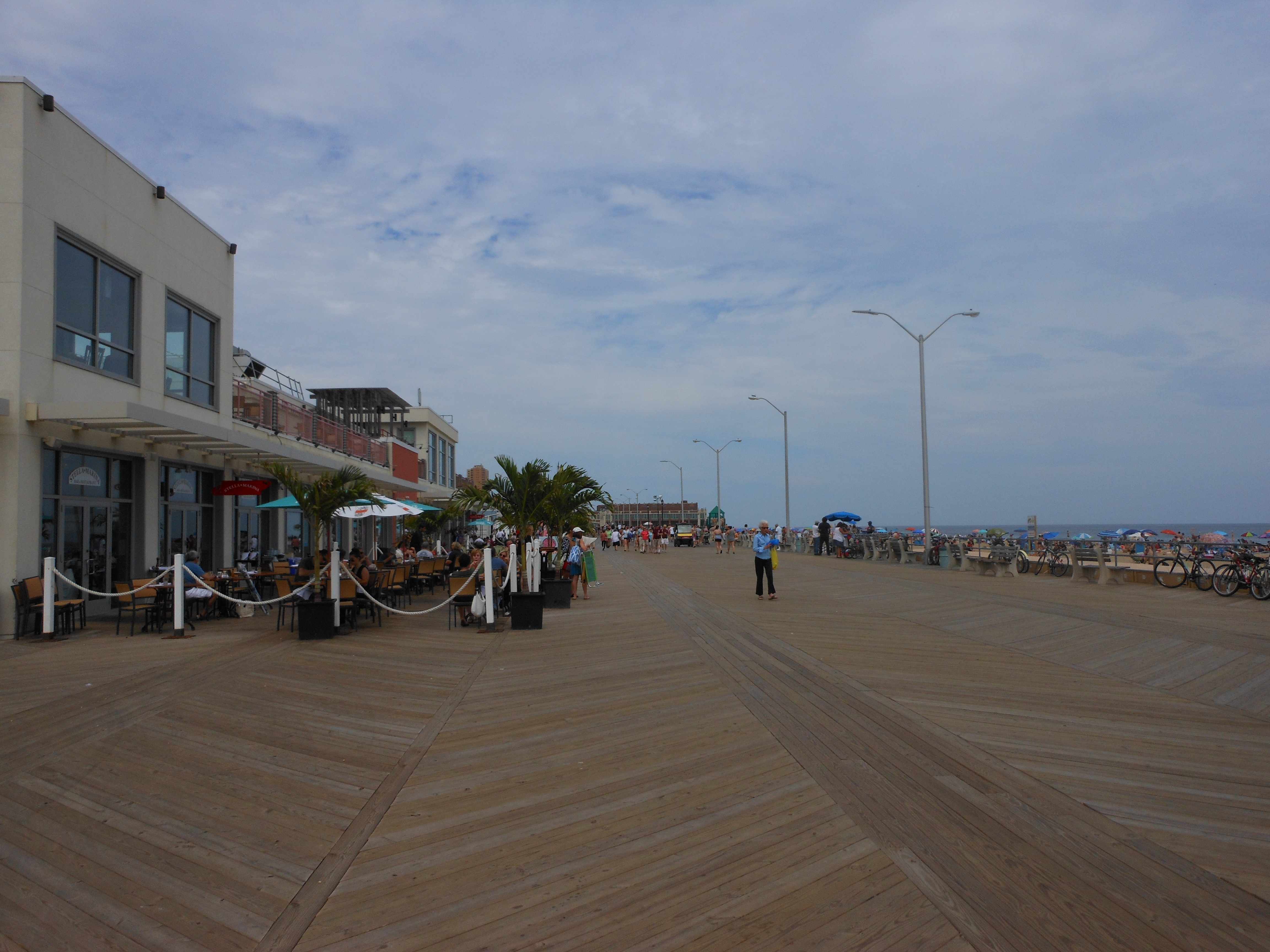 Asbury Park, new Jersey Boardwalk in 2013 after Hurricane Sandy